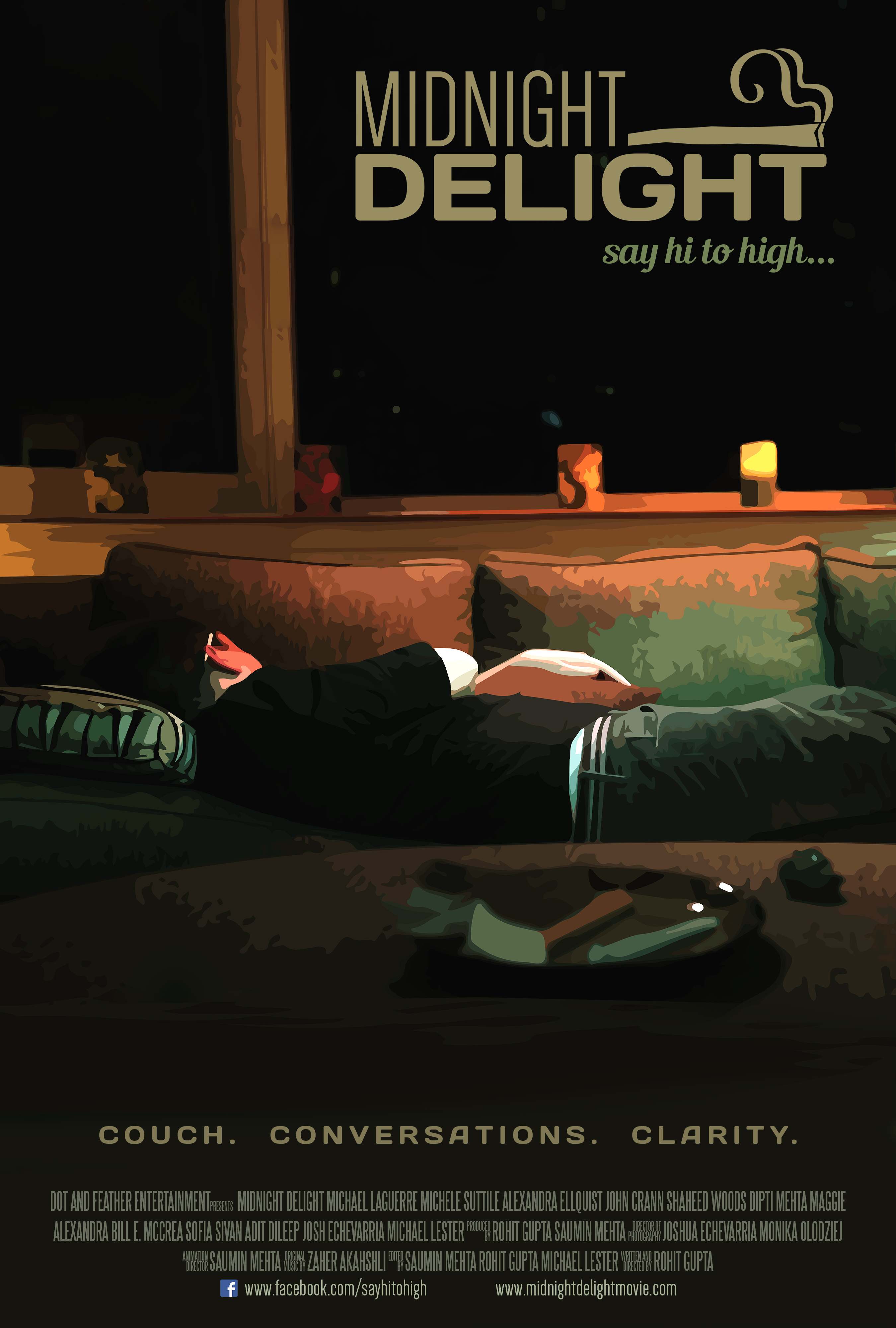 This is a poster for Midnight Delight. The poster art copyright is believed to belong to the producer of the film, the publisher of the film or the graphic artist.